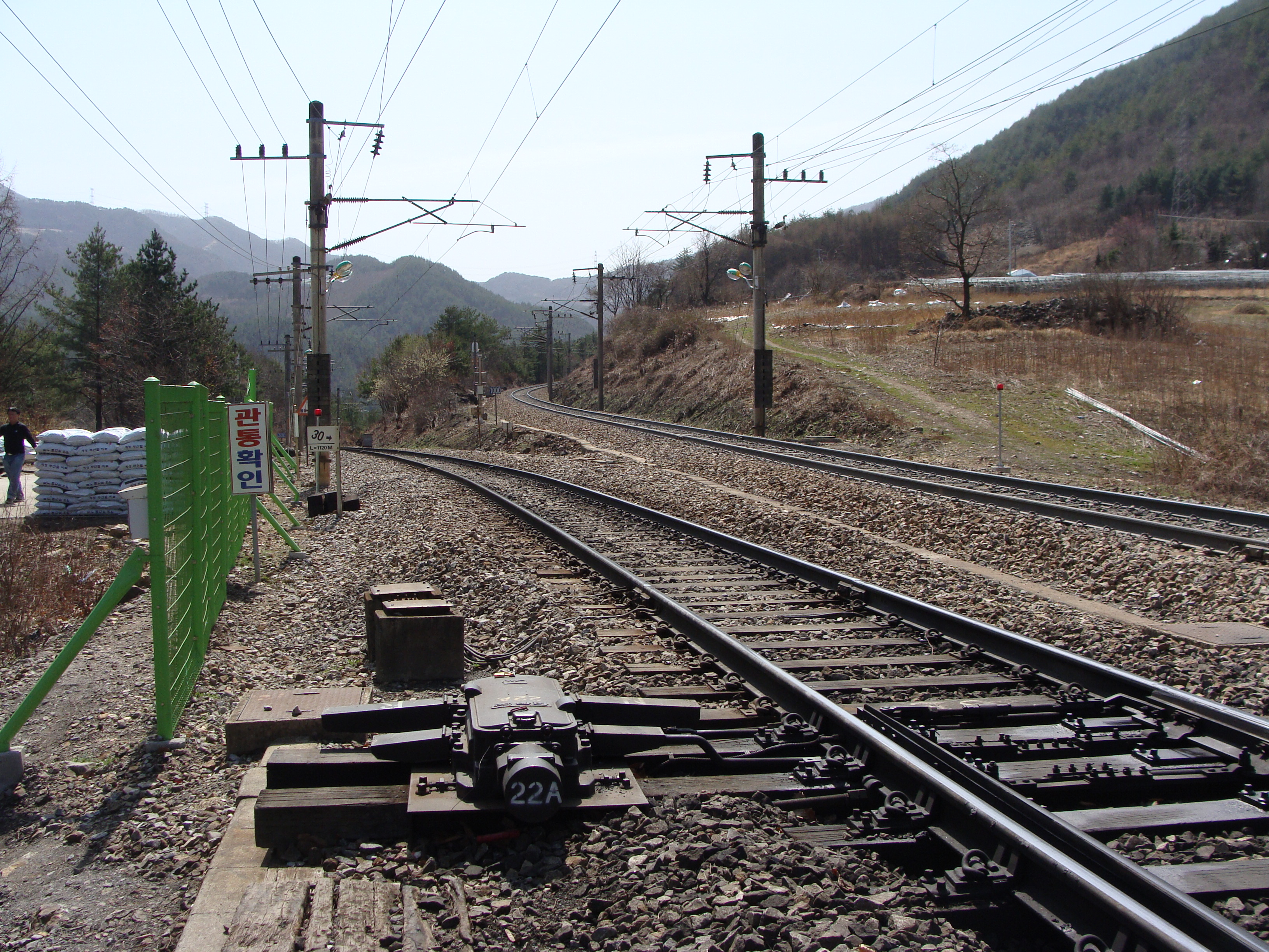 Zig-Zag Line at Heungjeon Station, South Korea